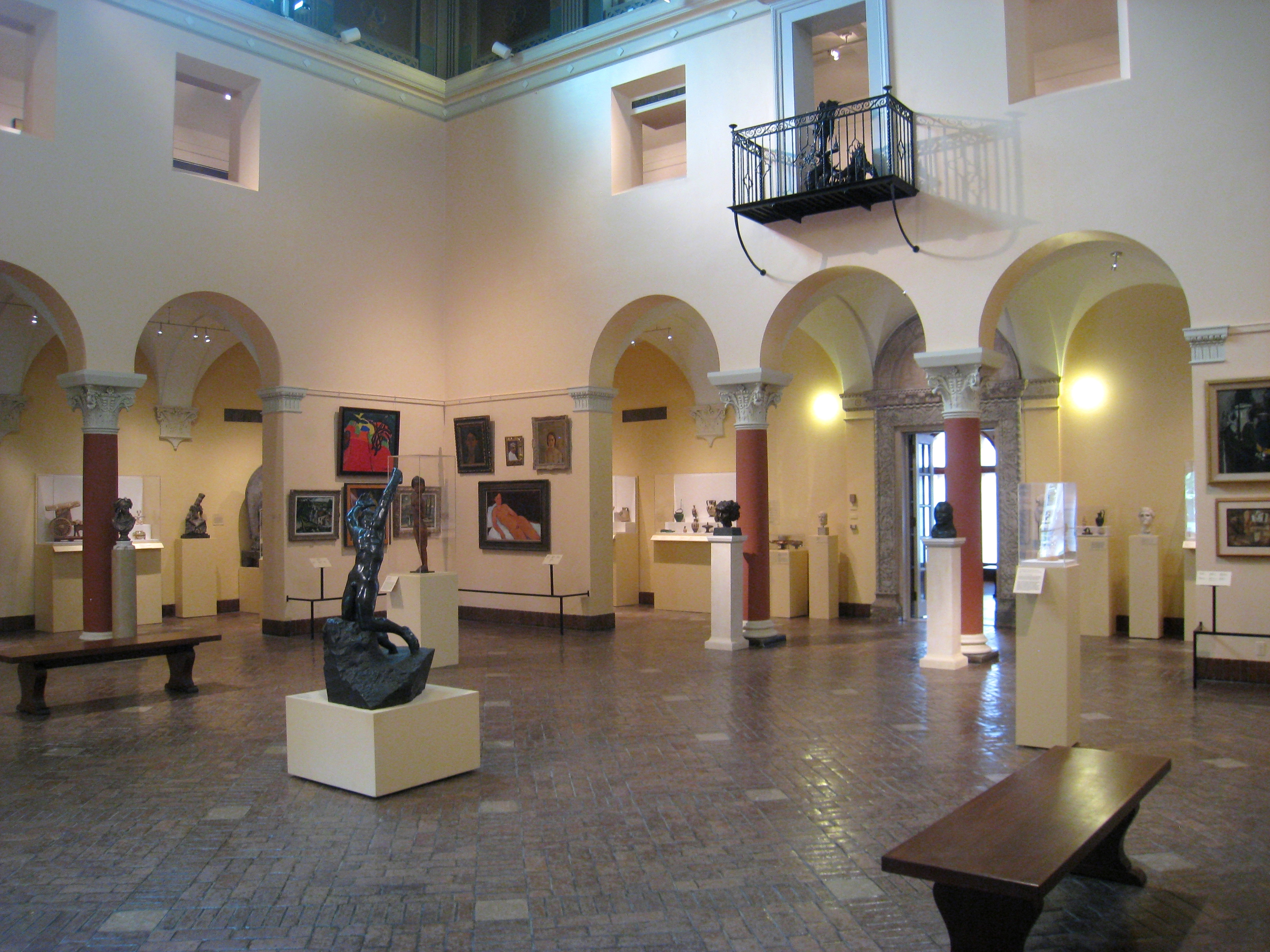 Interior view, Allen Memorial Art Museum, Oberlin College, Oberlin, Ohio, USA. The museum had no prohibitions against photography. I took this photograph.